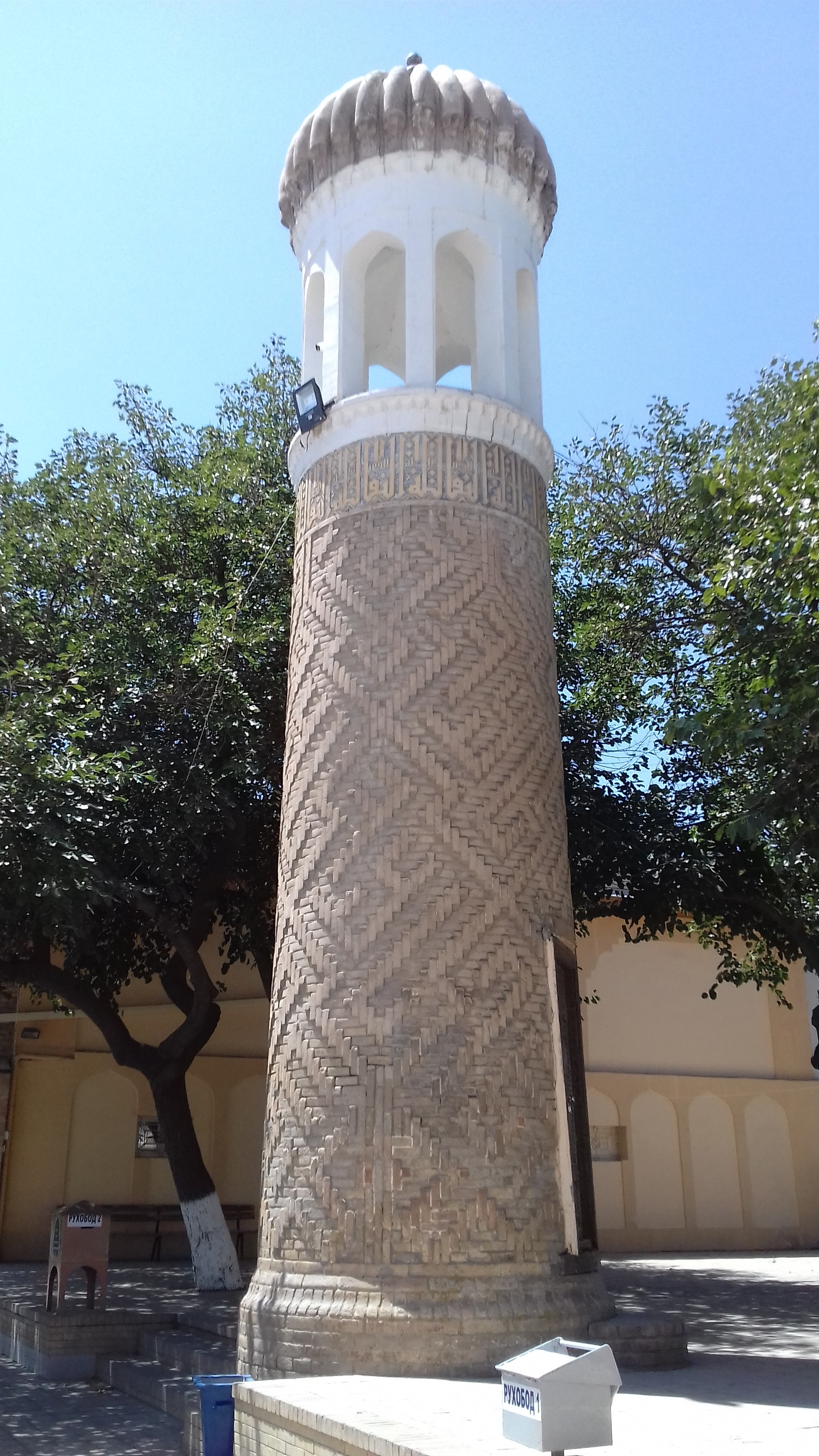 Minaret in Ruhabad Mosque in Samarkand (Uzbekistan)